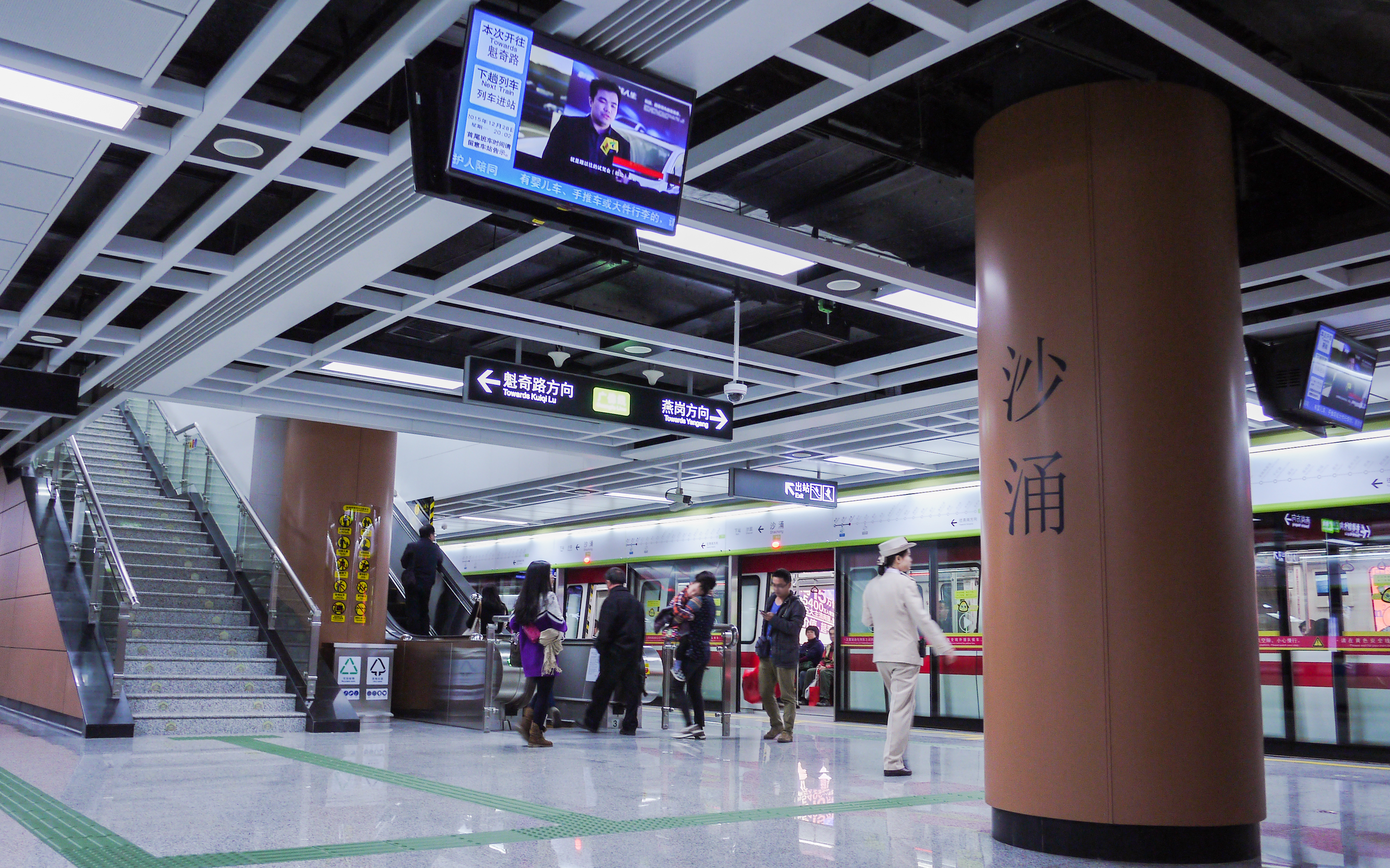 Shachong Station in 12/28/2015